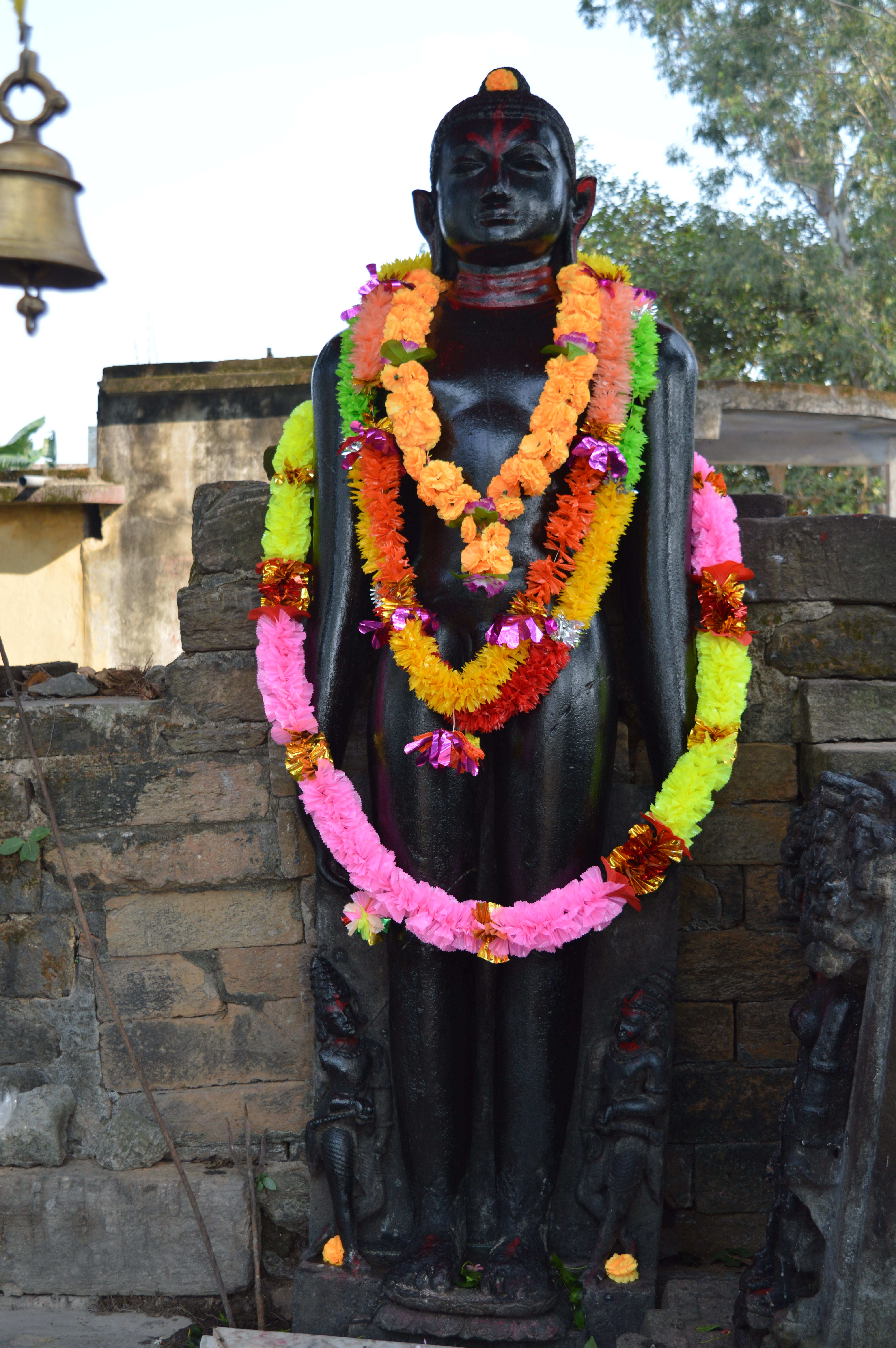 According to Joseph Beglar's 1878 report, the statue has a symbol of lotus on the pedestal. The symbol denotes that the statue is of Padmaprabha. The symbol is almost obliterated today. 7' ft high Statue of Jain Tirthankara at Pakbirra. It is beleived that this is the statue of Shitalanath